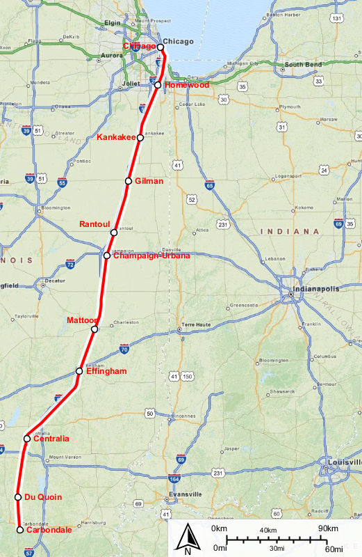 Amtrak Illini Legend: ━━━ Primary lines ━━━ Secondary lines ━━━ Tertiary lines